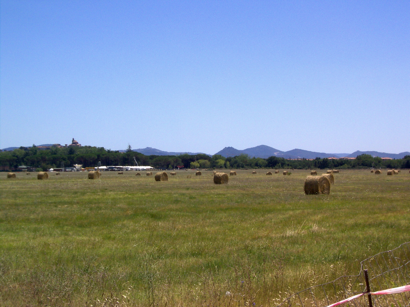 Eleuteri airport, summer 2007, is used also for agricolture purpuses.SM.